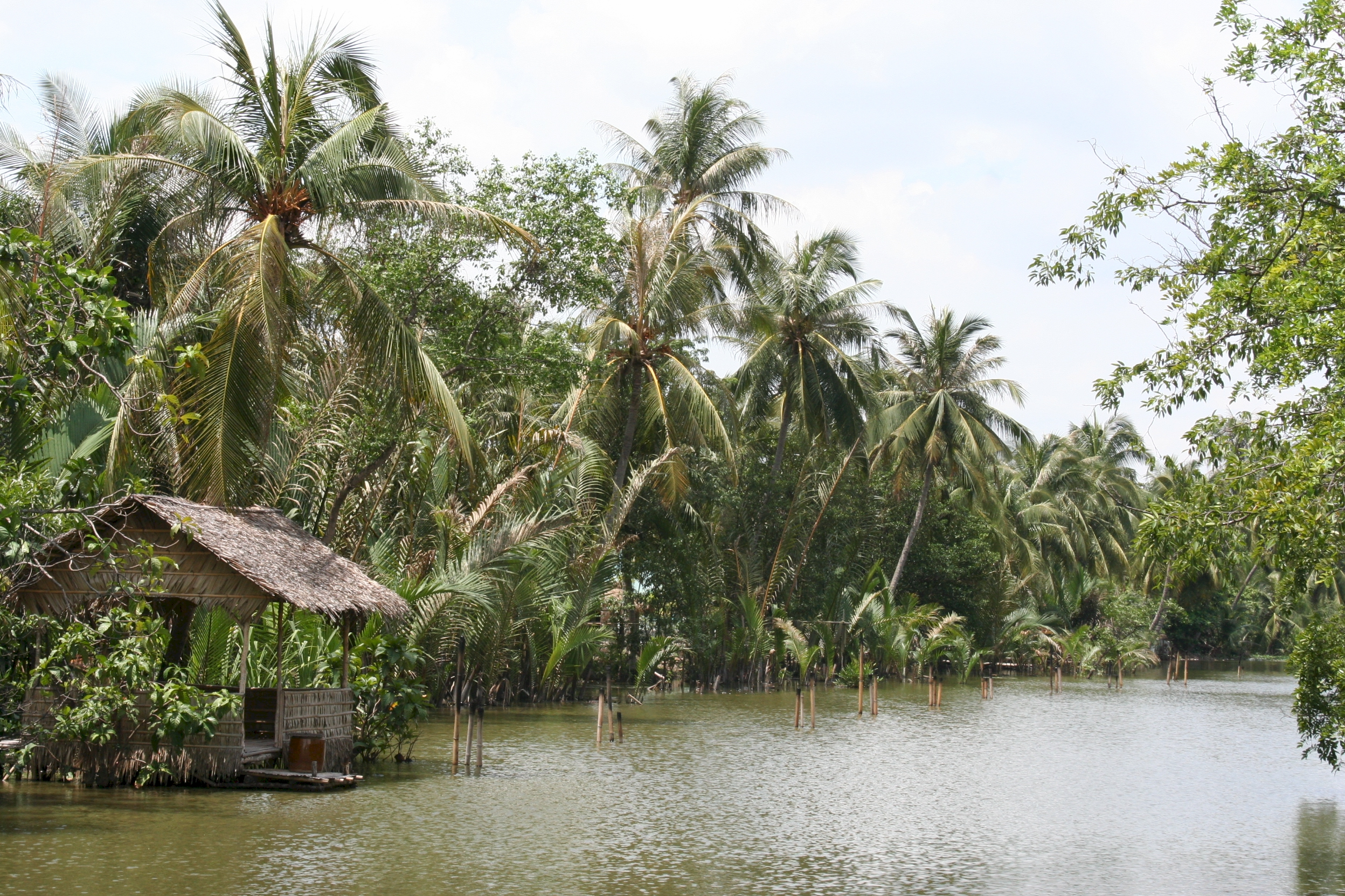 A fishing hut in Binh Quoi village, (Binh Thanh District, Ho Chi Minh City, Vietnam), taken Jun 2005. Photographer Roderick Divilbiss